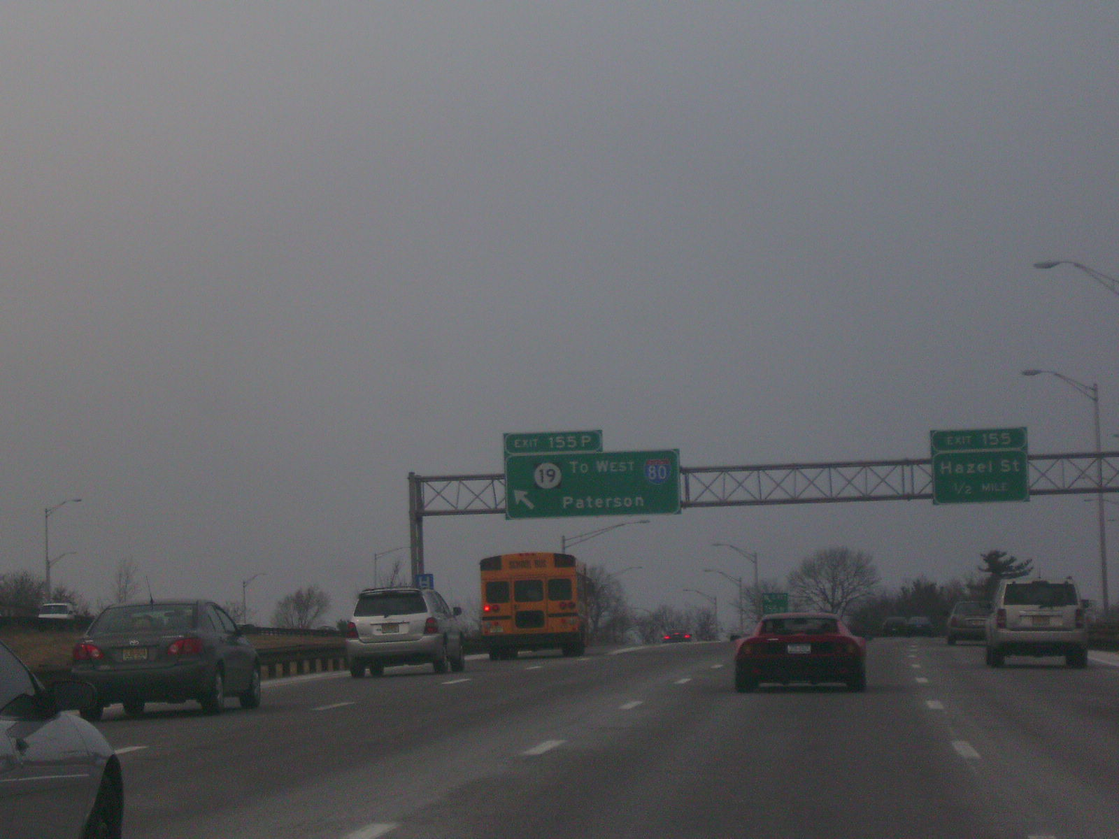 Northbound Garden State Parkway at exit for New Jersey Route 19 in Clifton, New Jersey.